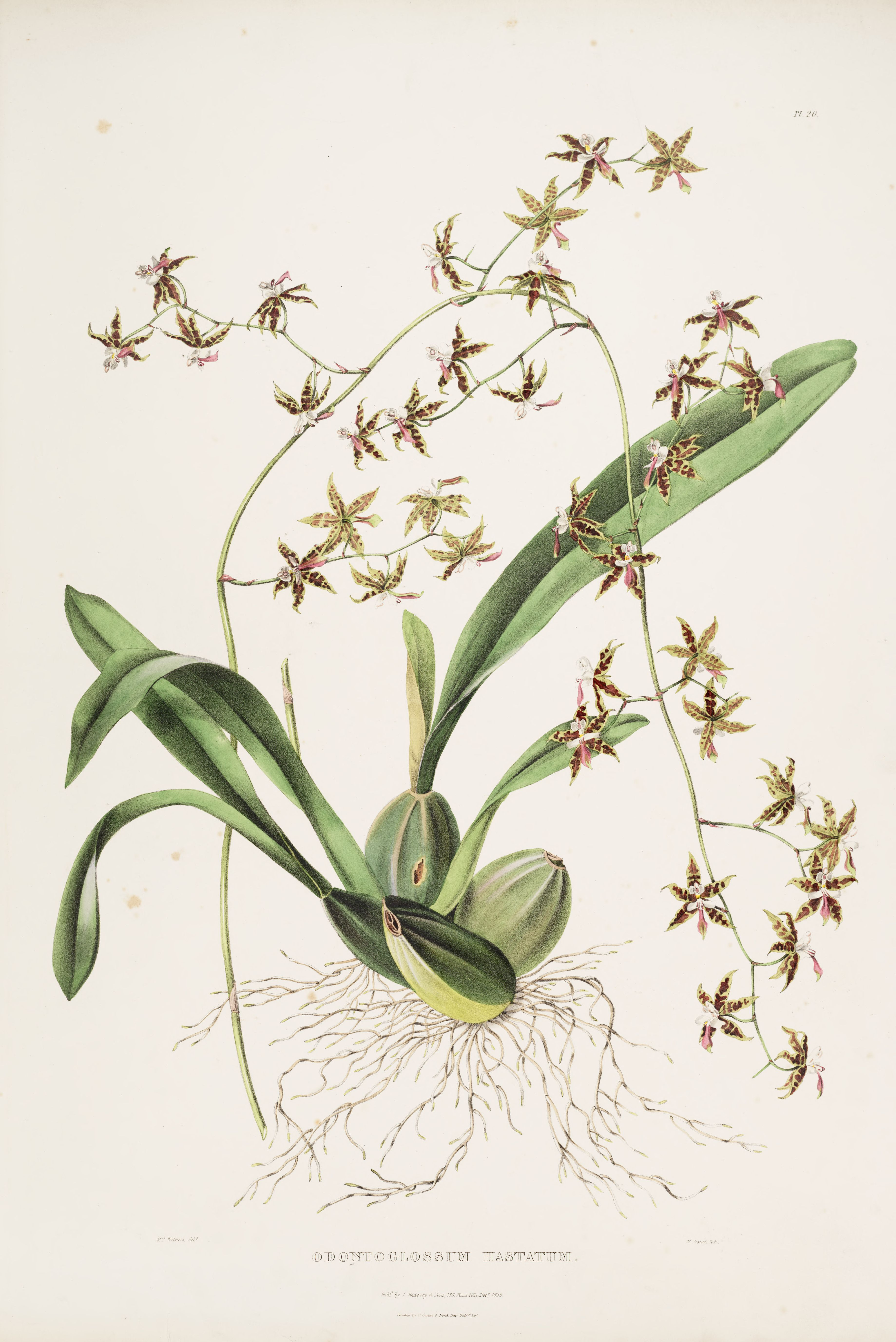 Illustration of Oncidium hastatum (as syn. Odontoglossum hastatum)